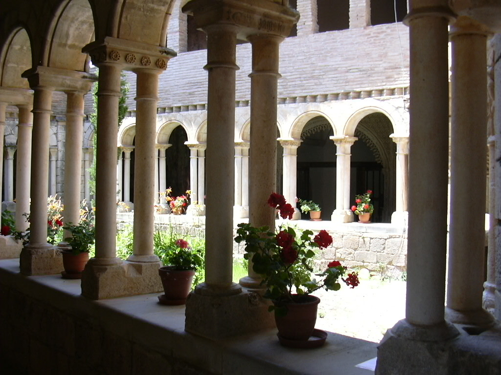 Cloister of the colegiate church in Alquézar